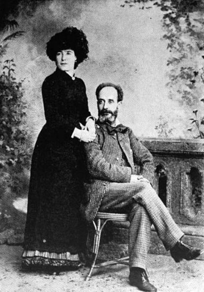 A studio portrait of the ballerina Rosita Mauri with her father